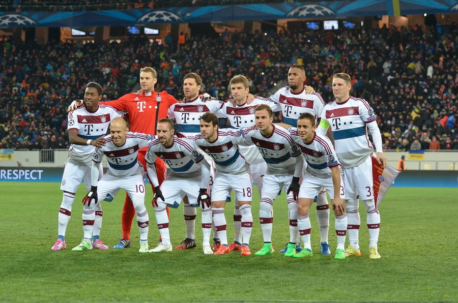 FC Bayern vs FC Shakhtar